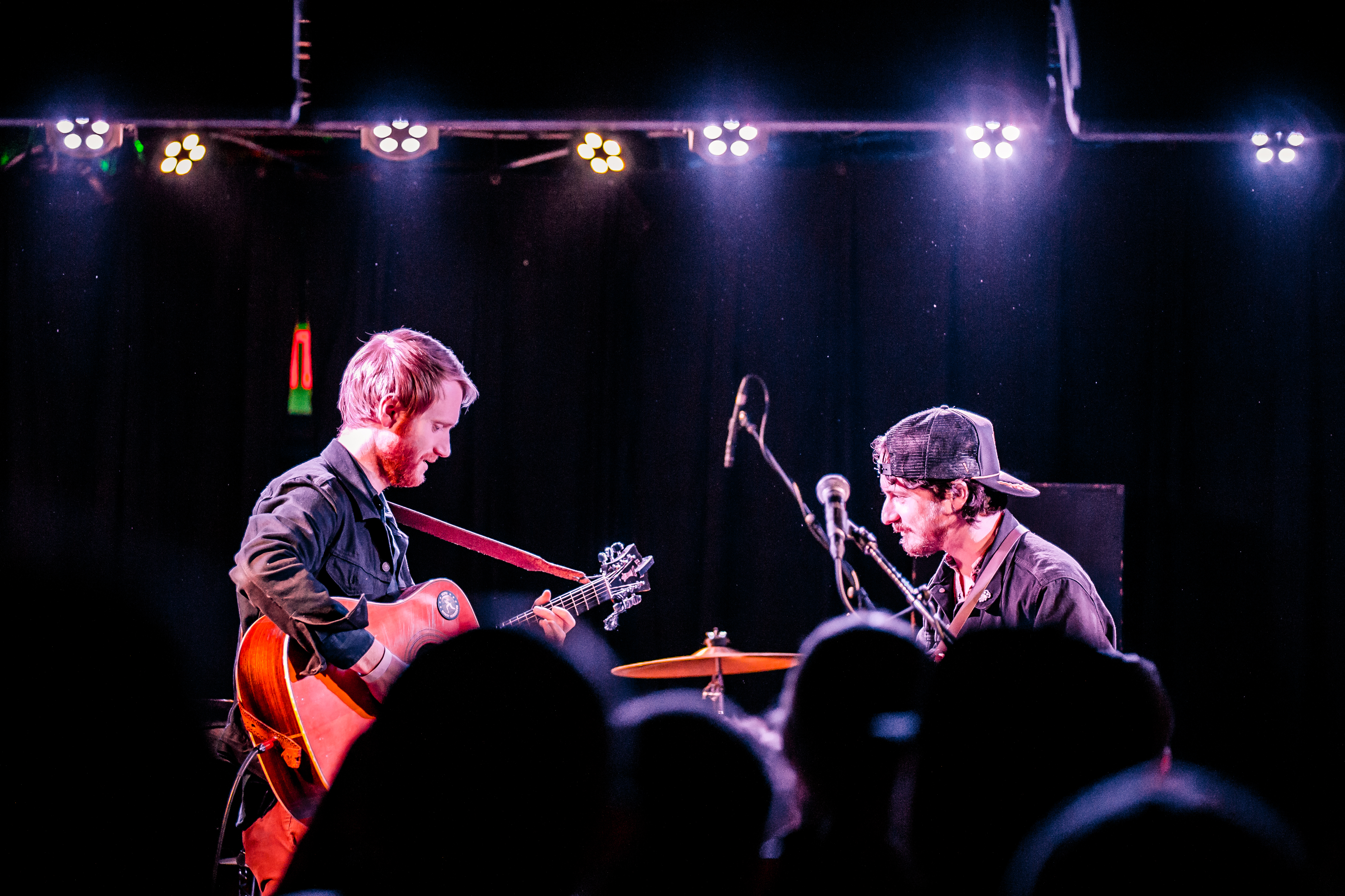 Goodnight, Texas (band) performing live in Minneapolis, MN, USA at 7th St. Entry in December, 2018